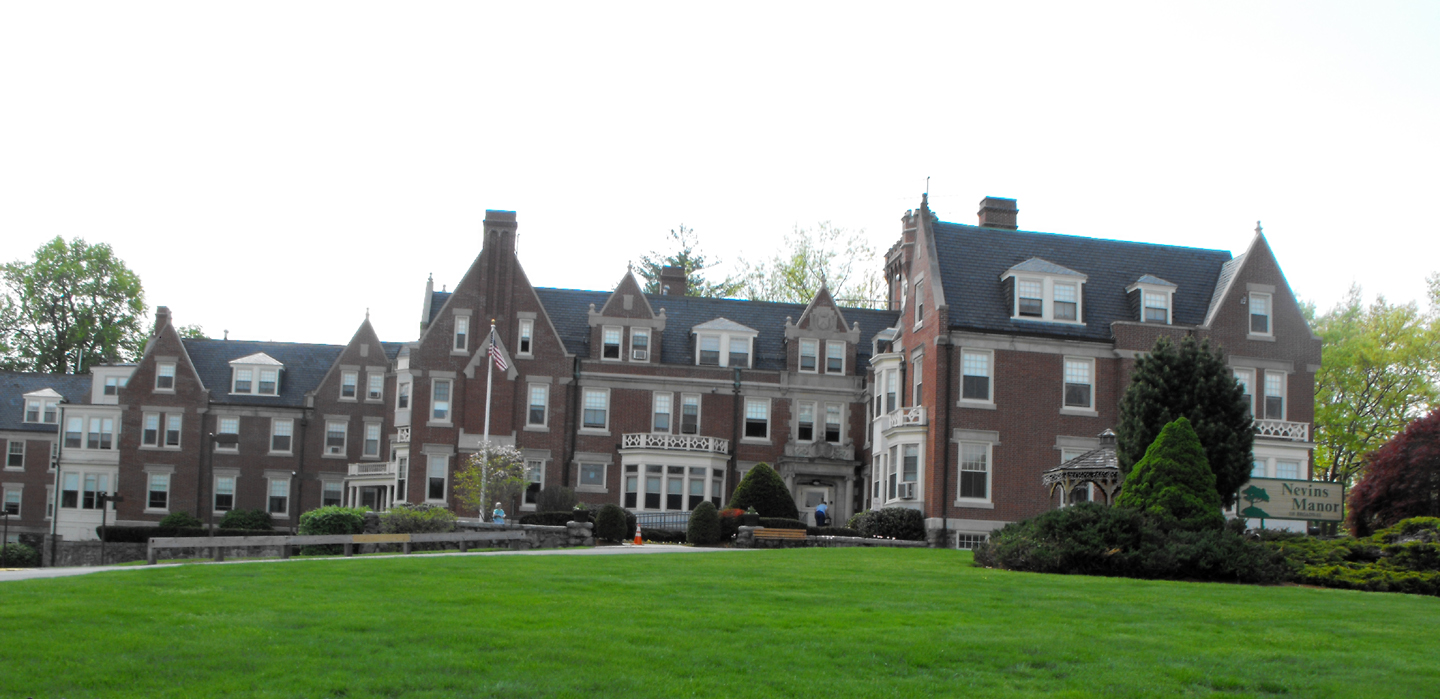 The Nevins Nursing & Rehabilition Centre was Henry C. Nevins Home for Aged and Incurables, 110 Broadway. Methuen, MA